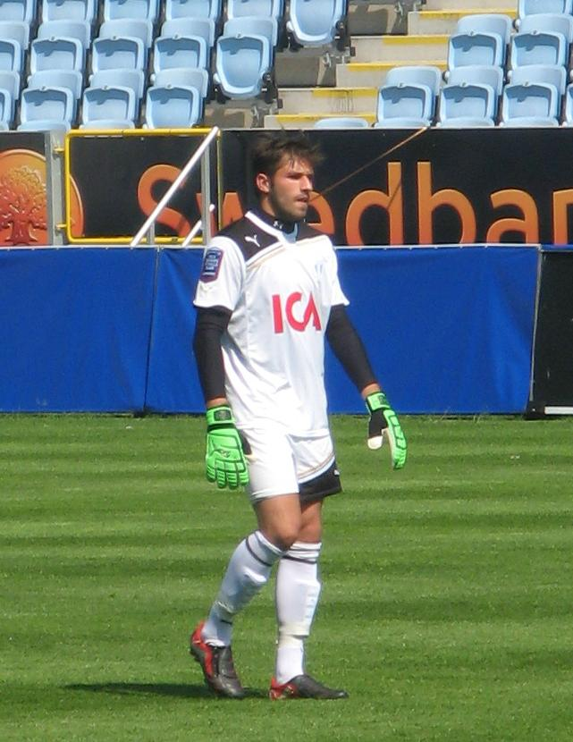 Dejan Garaca of Malmö FF